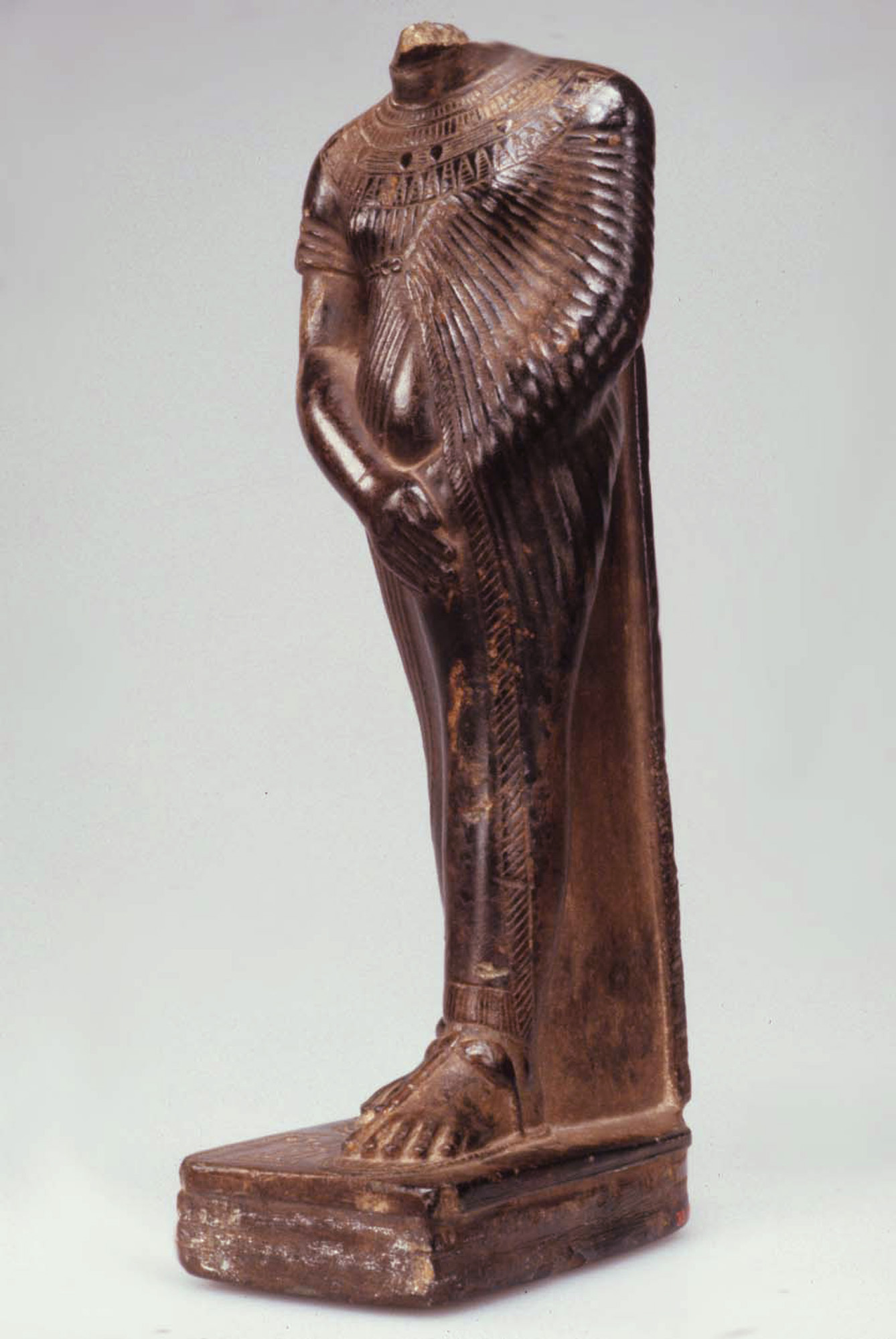 Statuette, standing king, Amenhotep III